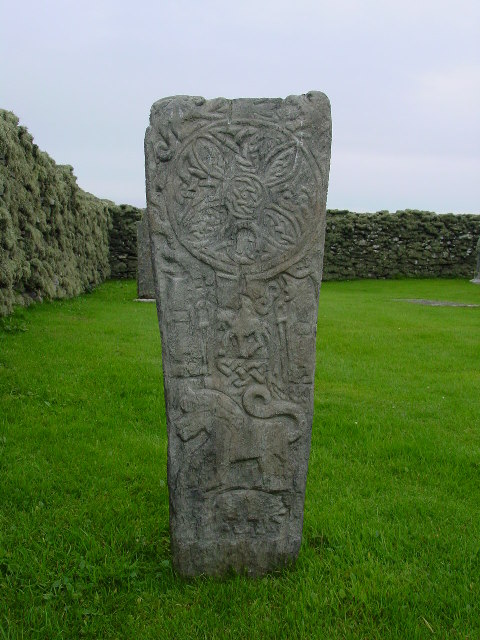 Old engraved crosses at St Mary's church on Bressay, Shetland, Scotland